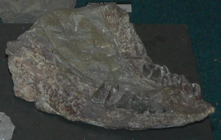 Fossil of Diaceratherium, an extinct rhino